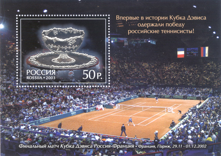 A souvenir sheet of Russia stamp no. 831 commemorating the 2002 Davis Cup.